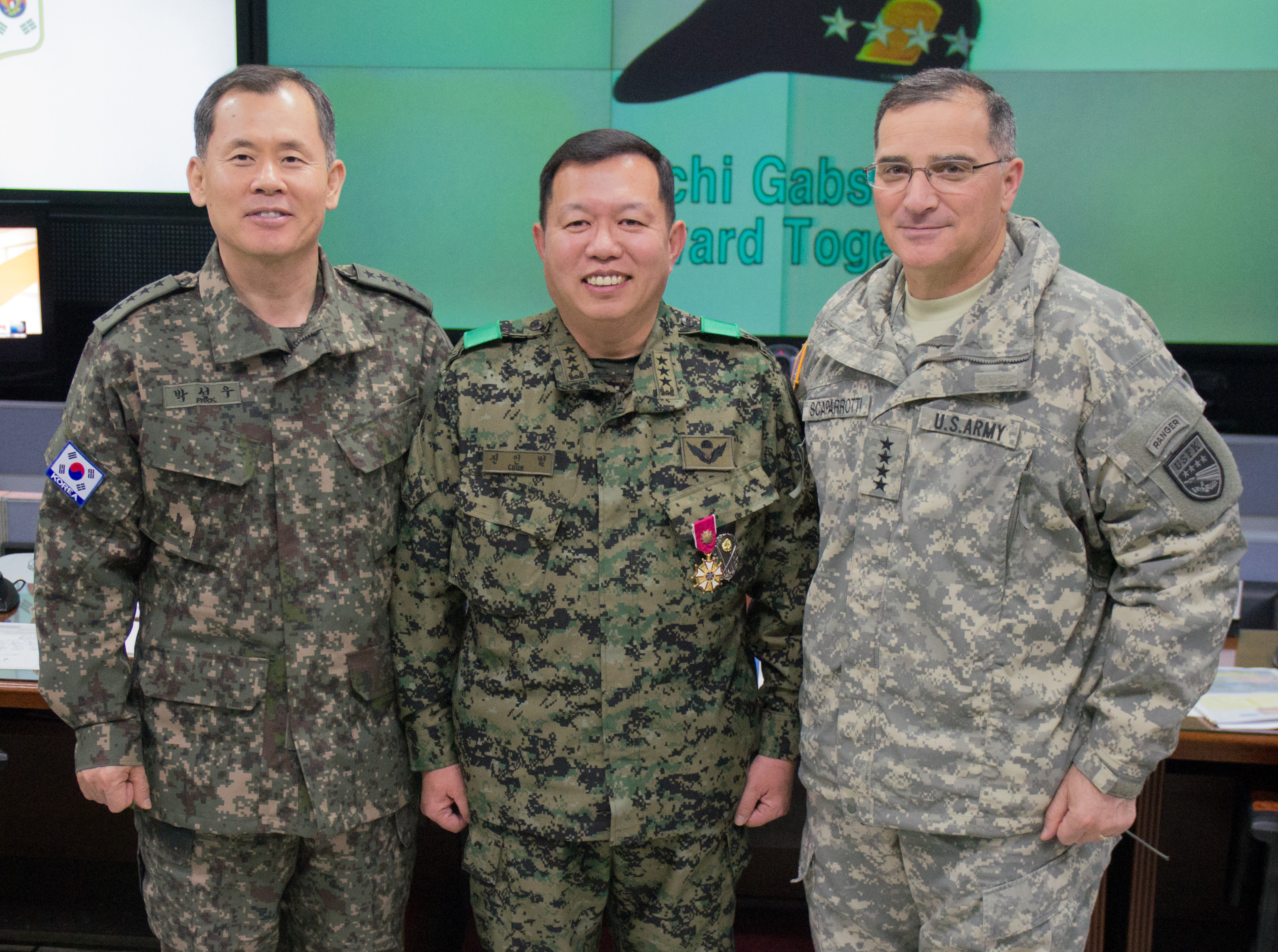 Gen. Curtis M. Scaparrotti, United Nations Command, Combined Forces Command, United States Forces Korea commander, visits the headquarters of the Combined Unconventional Task Force headquarters to meet with ROK and U.S. special forces soldiers and leaders and presents Lt. Gen. Chun In Bum, Special Warfare Command commander, with the Legion of Merit award at the Special Warfare Command Headquarters near Seoul, South Korea, Nov. 19, 2013.